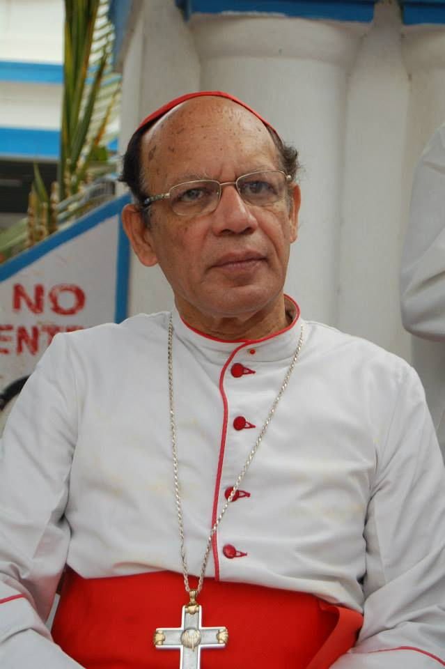 Oswald Gracias at Our Lady of Lourdes Shrine, Villianur to bless the new entrance